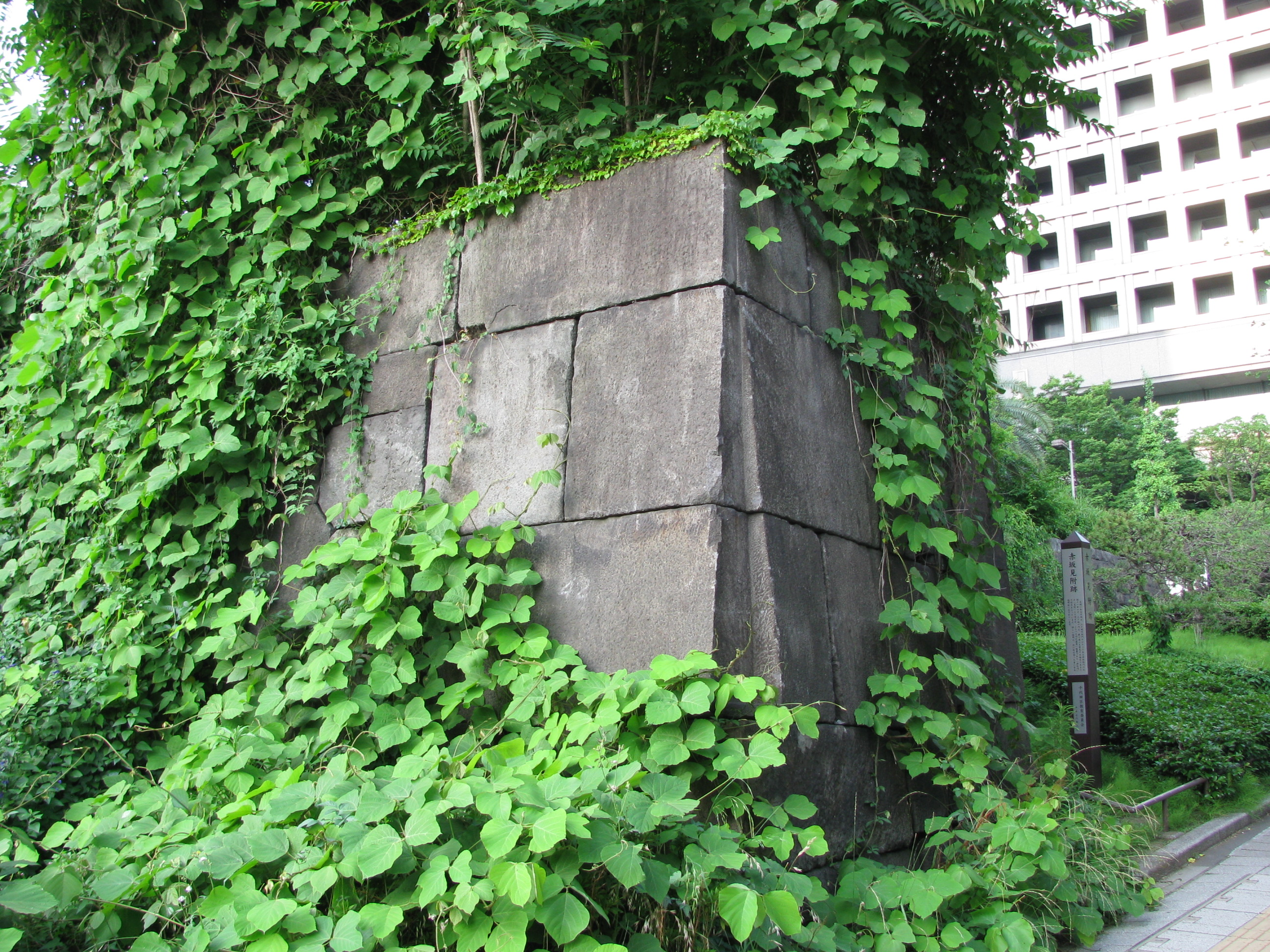 The Akasaka-mitsuke is a Castle gate of Edo-jō. This place is Kioichō in Chiyoda, Tokyo, Japan.